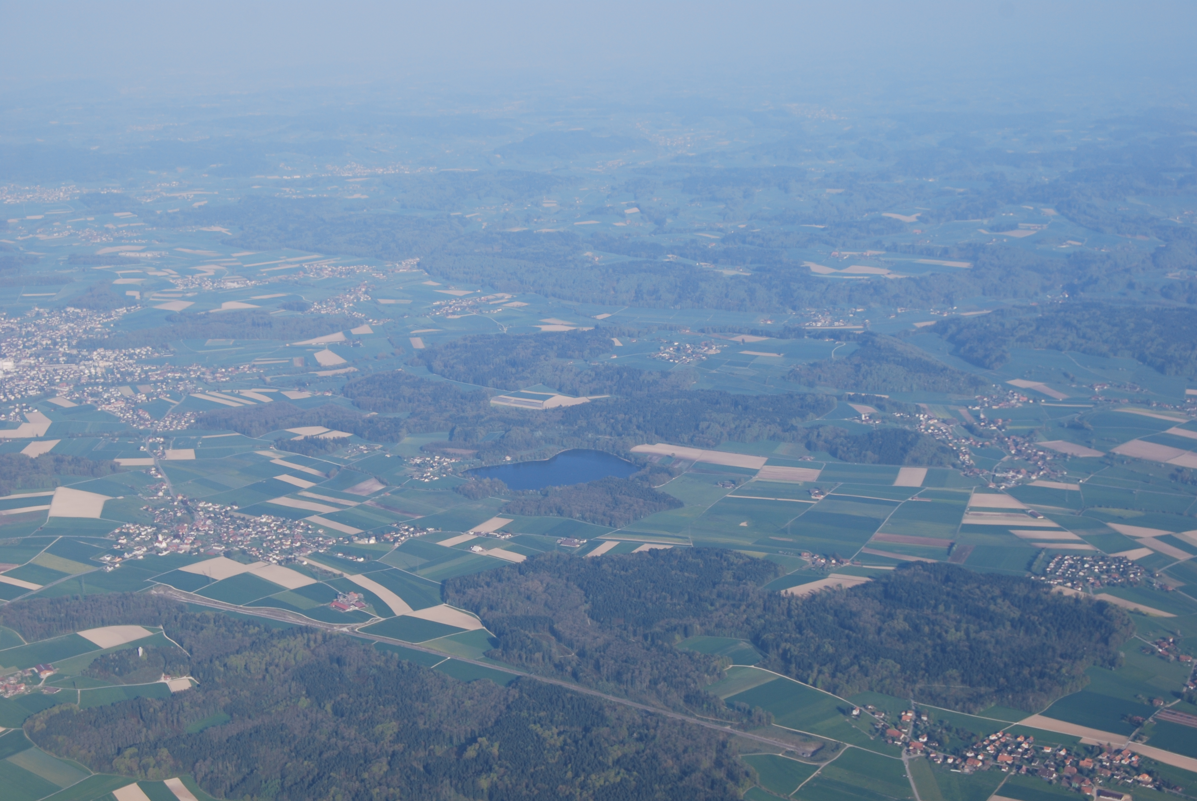 Aeschi, Steinhof and Hersiwil (canton of Solothurn), and Hermiswil (canton of Berne), Switzerland